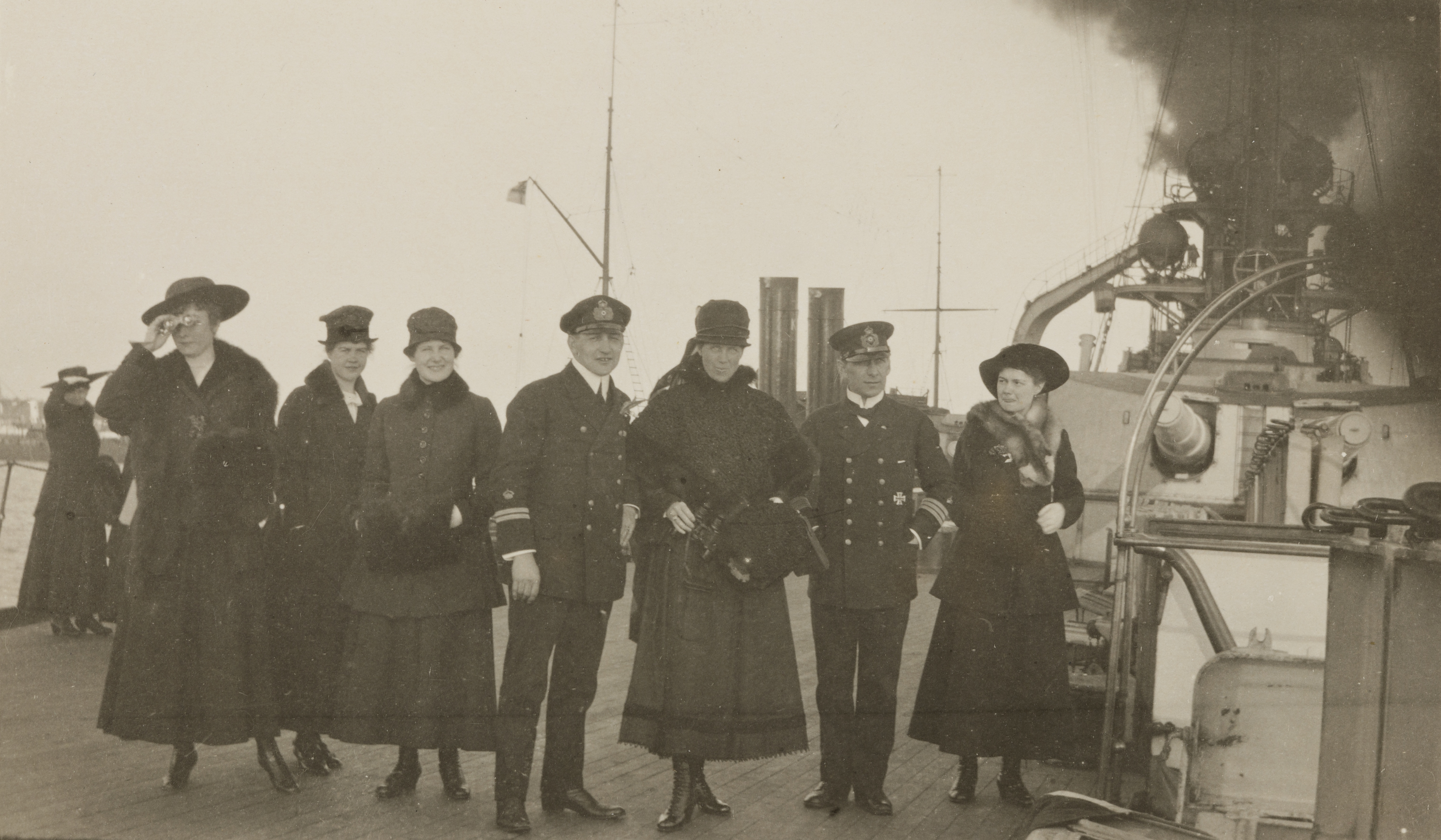 Helsinki bourgeois ladies visiting the German warship HMS Westfalen. From left: Gripenberg, Maja Elving, Margit Stockmann, Egon von Rüville, Dolly Seidenschnur, Büchel, Tiesenhausen.